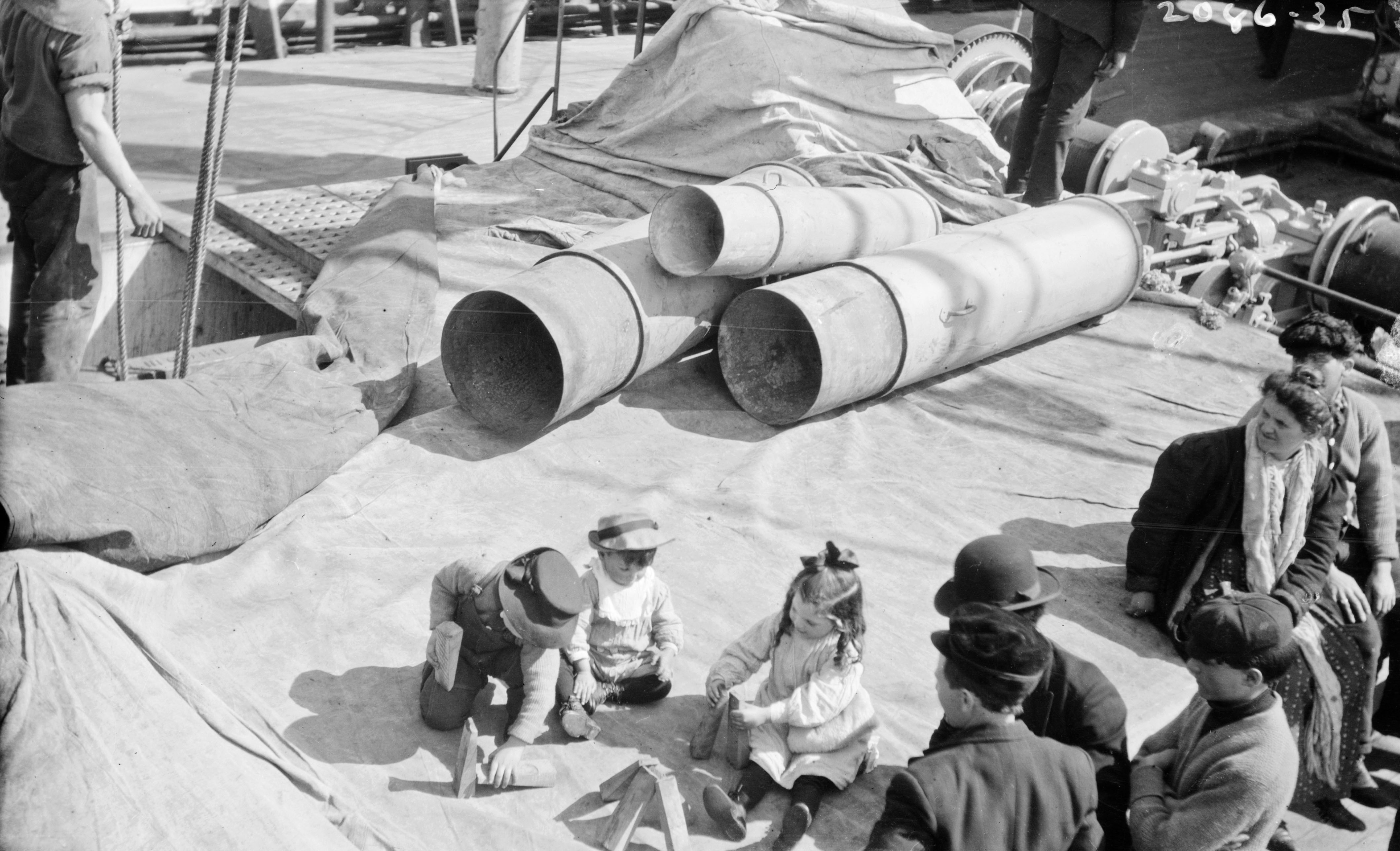 Description from page at Library of Congress: TITLE: Steerage children at play on FRIEDRICH DER GROSSE CALL NUMBER: LC-B21- 2086-35[P&P] REPRODUCTION NUMBER: LC-DIG-ggbain-27109 (digital file from original negative) RIGHTS INFORMATION: No known restrictions on publication. MEDIUM: 1 negative : nitrate ; 5 x 7 in. or smaller. CREATED/PUBLISHED: [no date recorded on caption card] CREATOR: Bain News Service, publisher. NOTES: Forms part of: George Grantham Bain Collection (Library of Congress). Title from unverified data provided by the Bain News Service on the negatives or caption cards. General information about the Bain Collection is available at Temp. note: Batch six loaded. FORMAT: Nitrate negatives. REPOSITORY: Library of Congress Prints and Photographs Division Washington, D.C. 20540 USA DIGITAL ID: (digital file from original neg.) ggbain 27109 CONTROL #: ggb2006002523